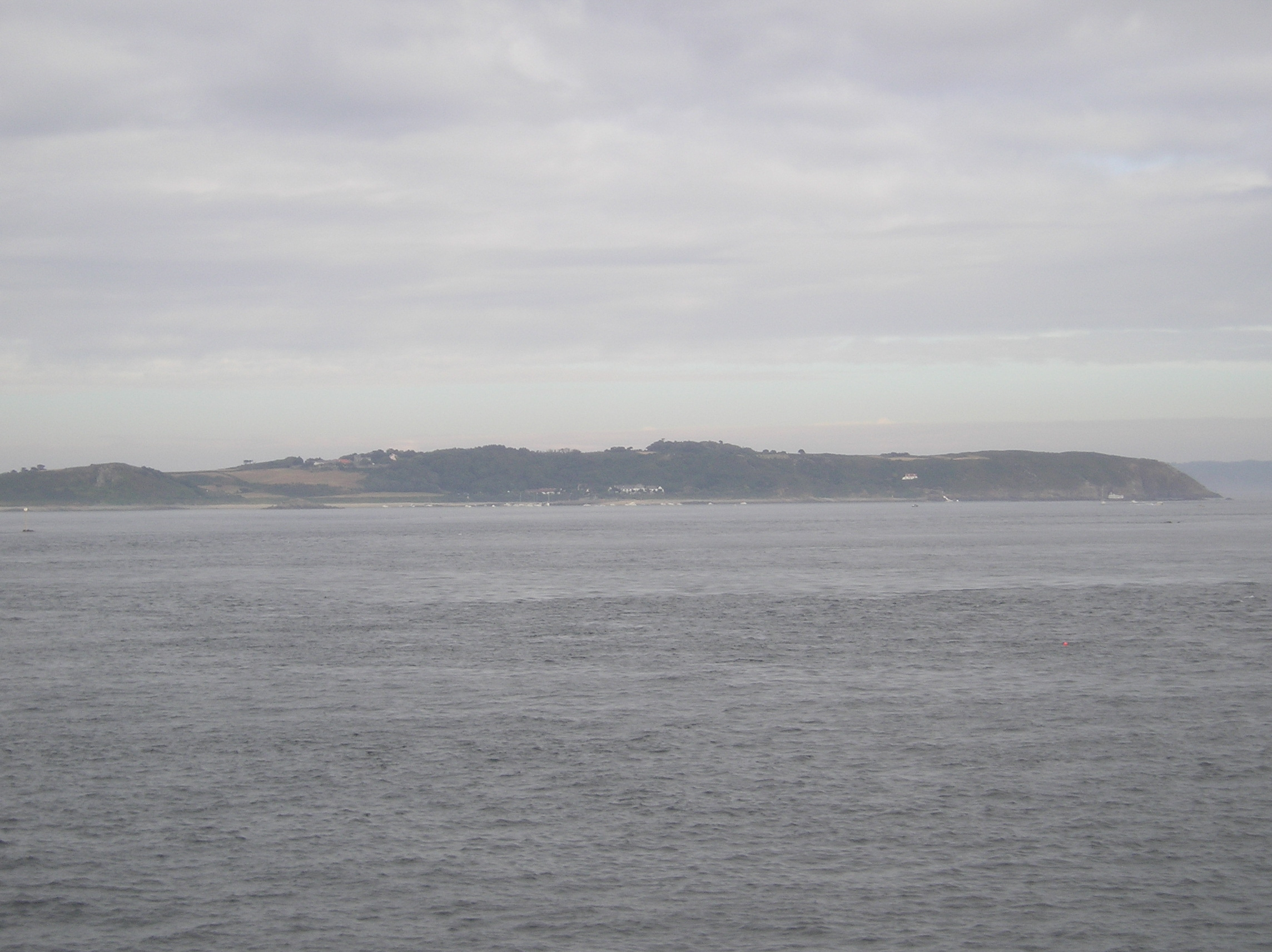 Herm Island